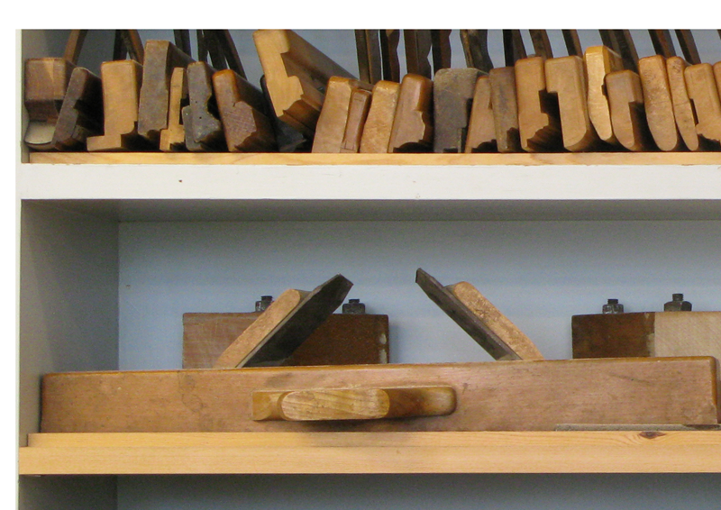 Plane with two irons, working in both directions. On upper shelf: profile planes.